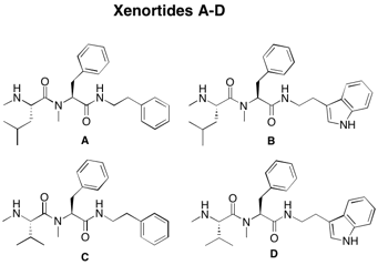 Structure of Xenortides A-D